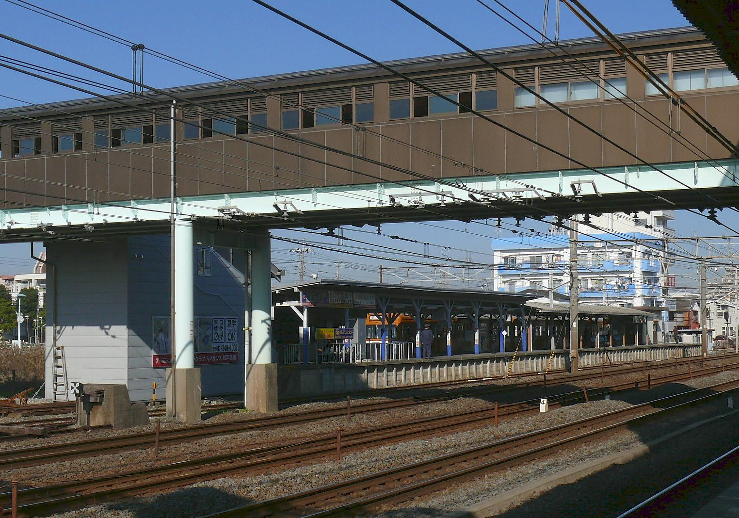 Nagareyama-Dentetu Railway Mabashi-Station-premises(Japan,Chiba-prefecture,Matsudo-City). It takes a picture of the station premises of JR-Jyouban Line Mabashi-station from the Platform. 流鉄流山線の馬橋駅の駅構内をJR馬橋駅ホームから撮影。 画像の右側が流山駅方面となる。手前の線路はJR常磐線。 駅の所在地は千葉県松戸市。